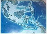 Landforms of Southeast Asia. Illustrates the shallow seas and the interconnections of the peoples